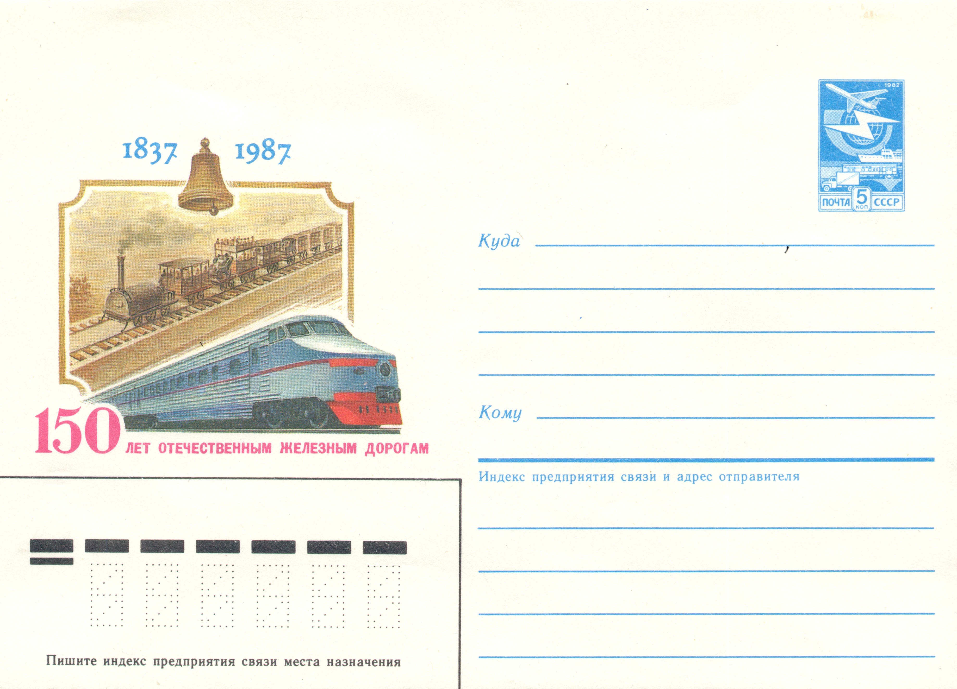 USSR 150-year Anniversary of National Railways Envelope, 1987 - front side